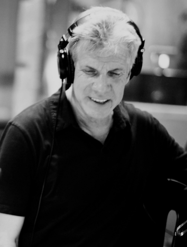 Steve Rawlins with headphones black and white. Recording studio, eyes closed.